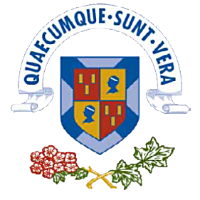 StFX University Coat of Arms